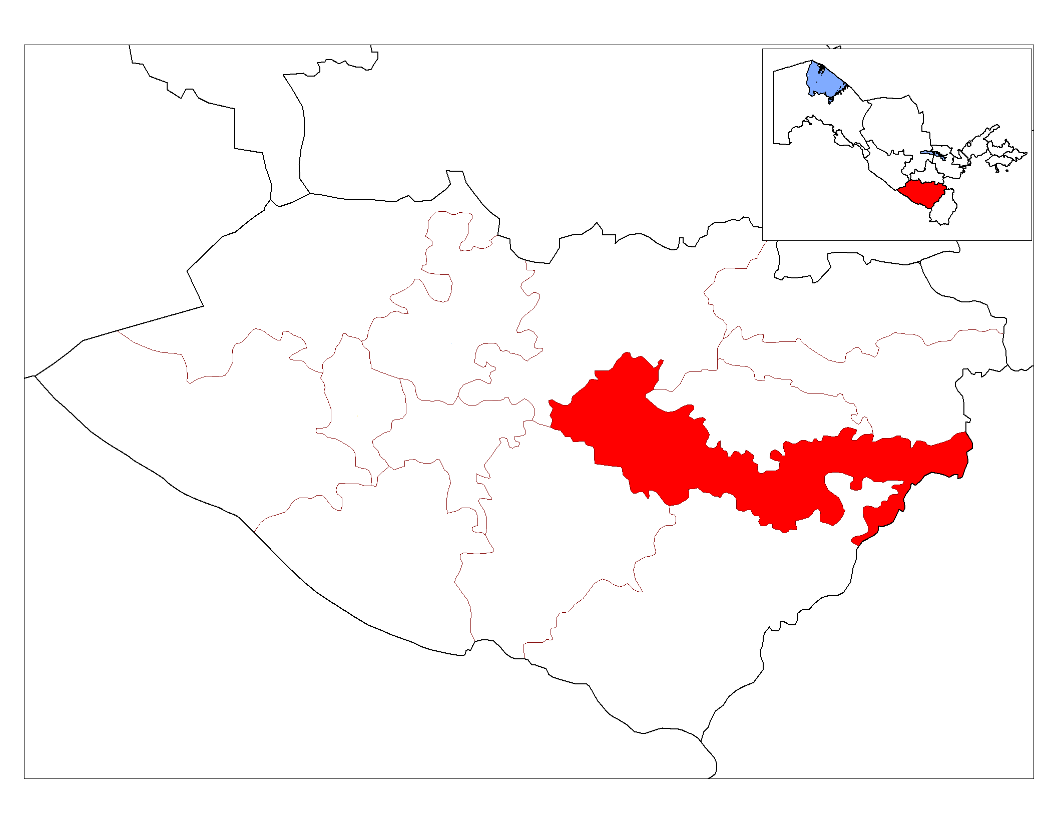 Location map of Qamashi District in Qashqadaryo Province, Uzbekistan